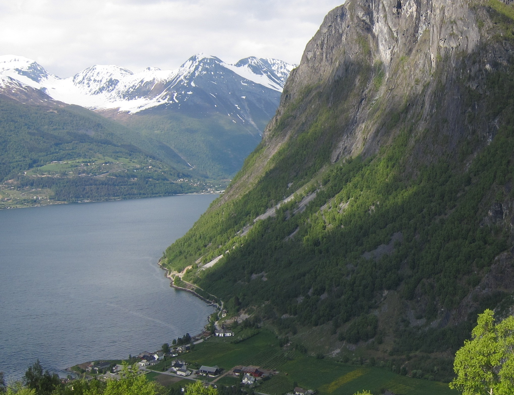 Dale (Norddal) church seen from Hallstad, south to north direction. In the background: Norddalsfjorden, Linge og Valldal.